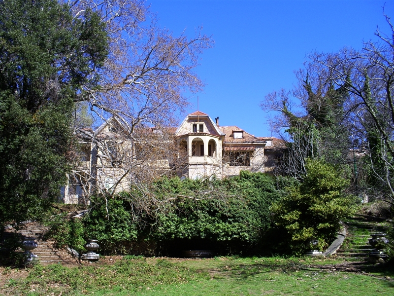 The Palace from the Royal Gardens